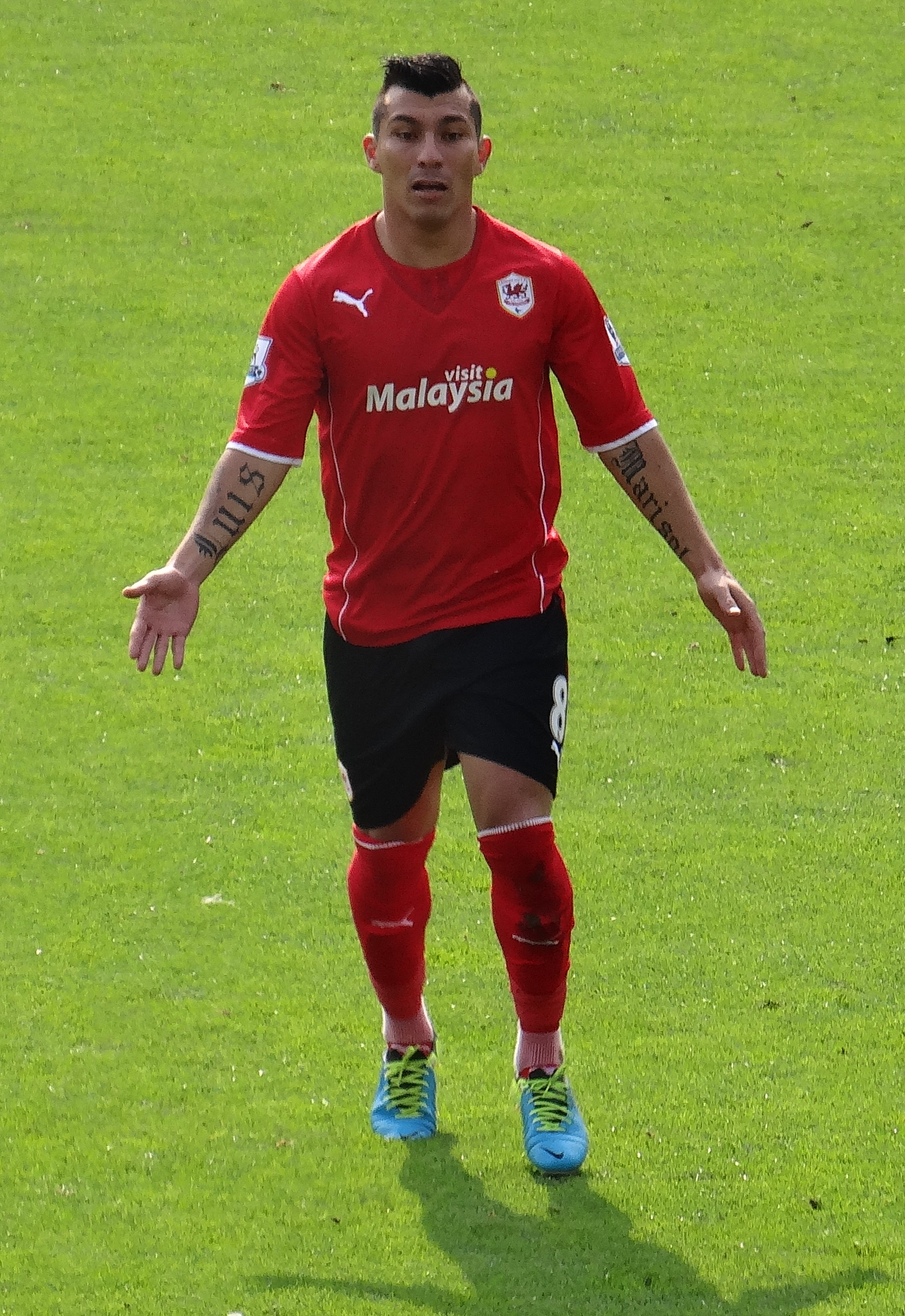 Gary Medel playing for Cardiff City in 2013.